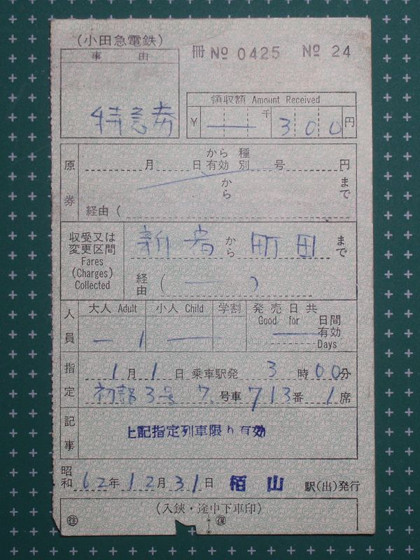 Limited express ticket of Odakyu Romancecar Hatsumoude No.3.